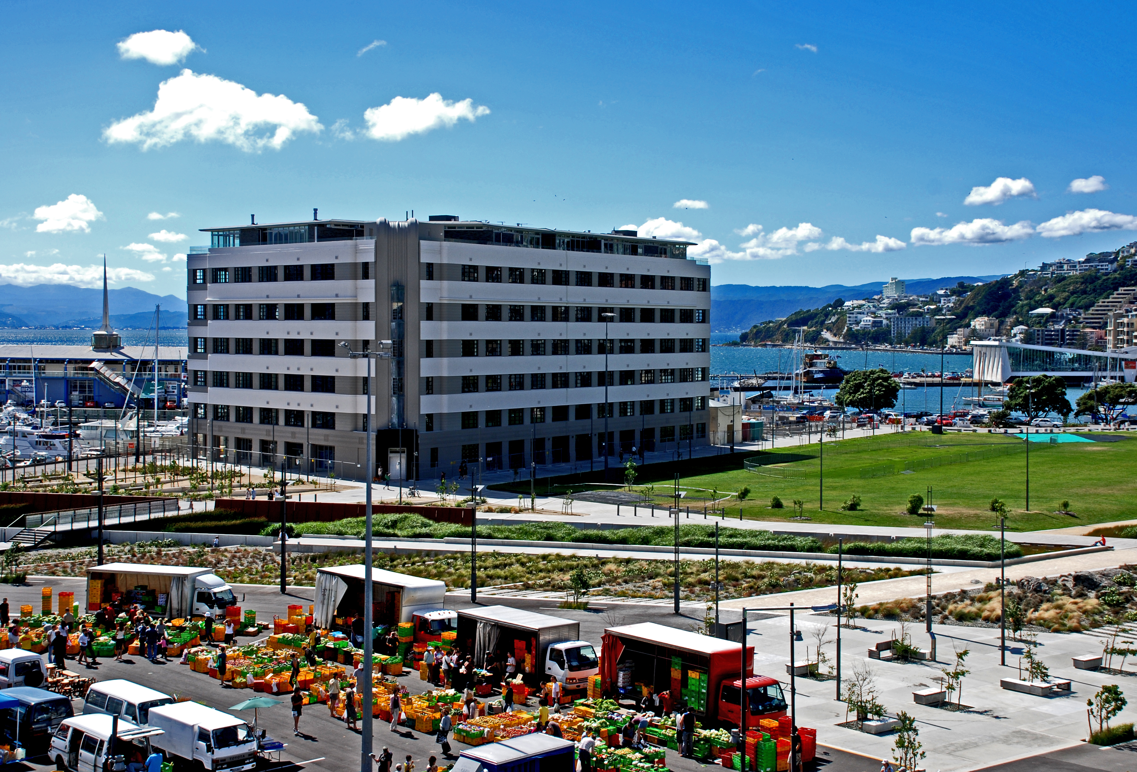 Former Post and Telegraph Building and Waitangi Park, Wellington, New Zealand. New Zealand Historic Places Trust Category II; register number 7419.